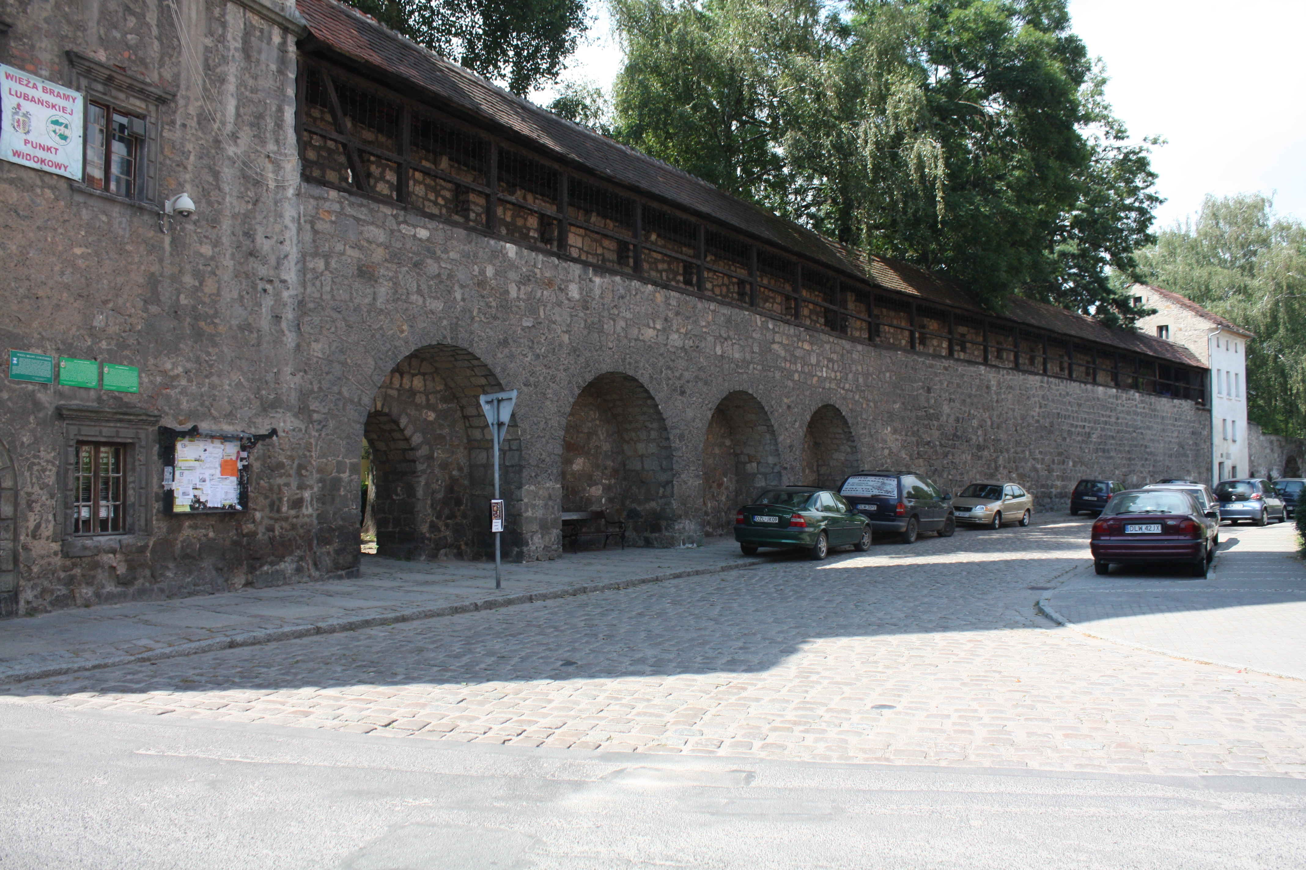 This photo of Lower Silesian Voivodeship was taken during Wikiexpedition 2013 set up by Wikimedia Polska Association. You can see all photographs in category Wikiekspedycja 2013. English | Polski | +/−